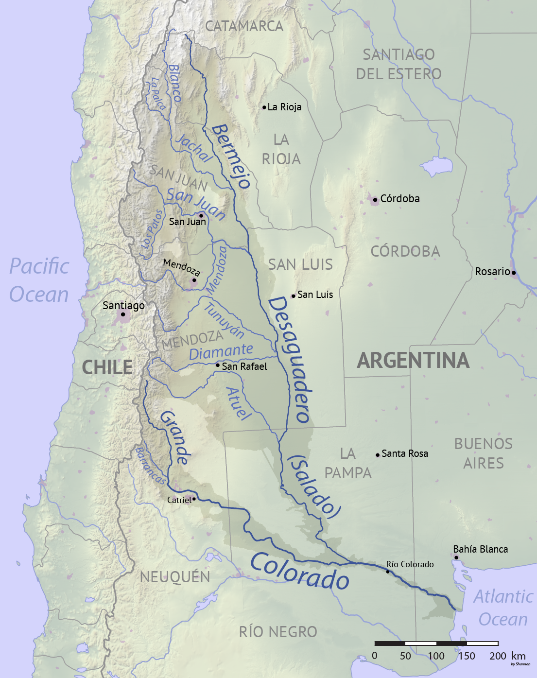 Map of the Colorado/Desaguadero river system in Argentina. Created using public domain Natural Earth and USGS data.